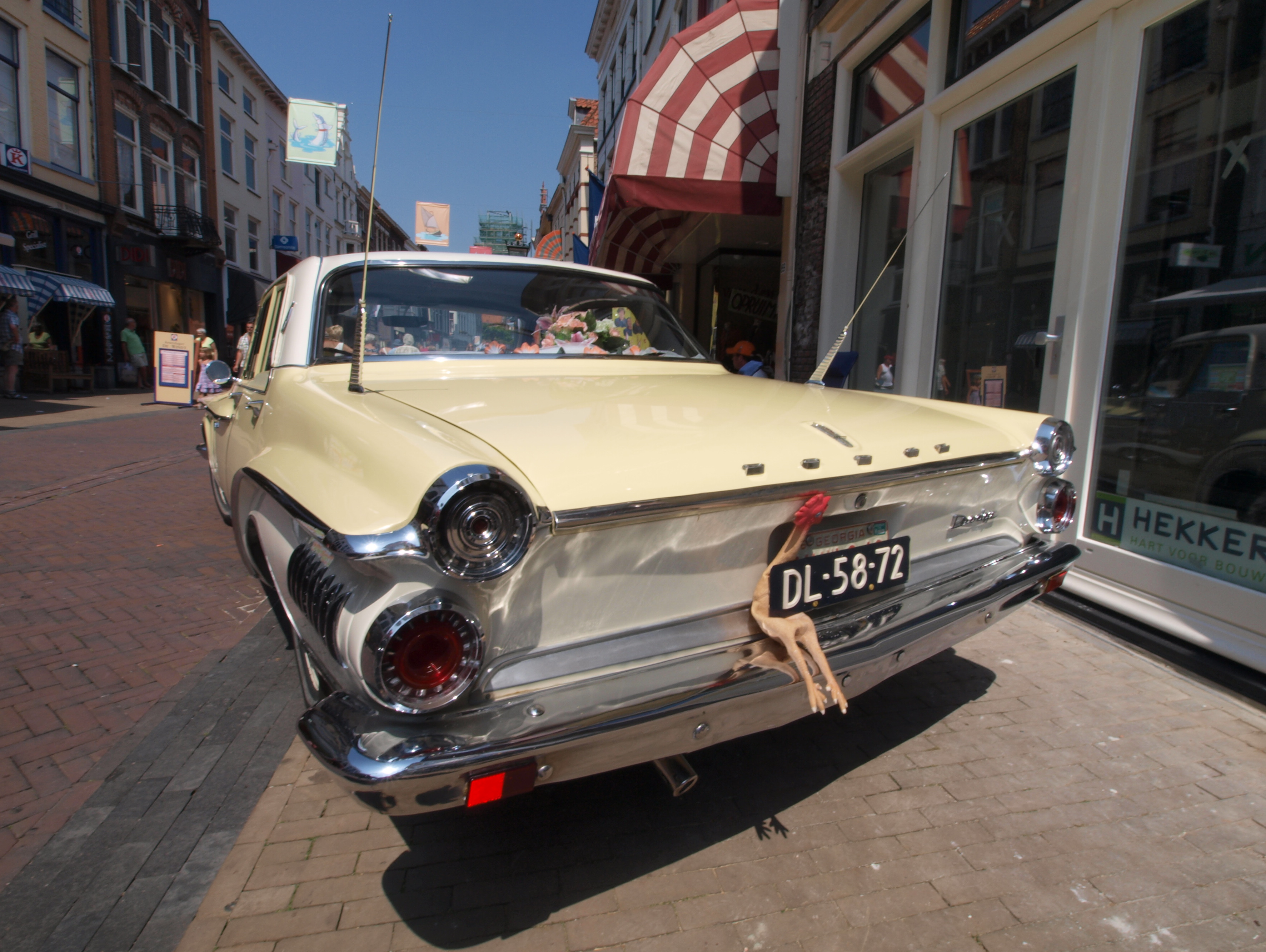 Photographed at Kampen, The Netherlands.